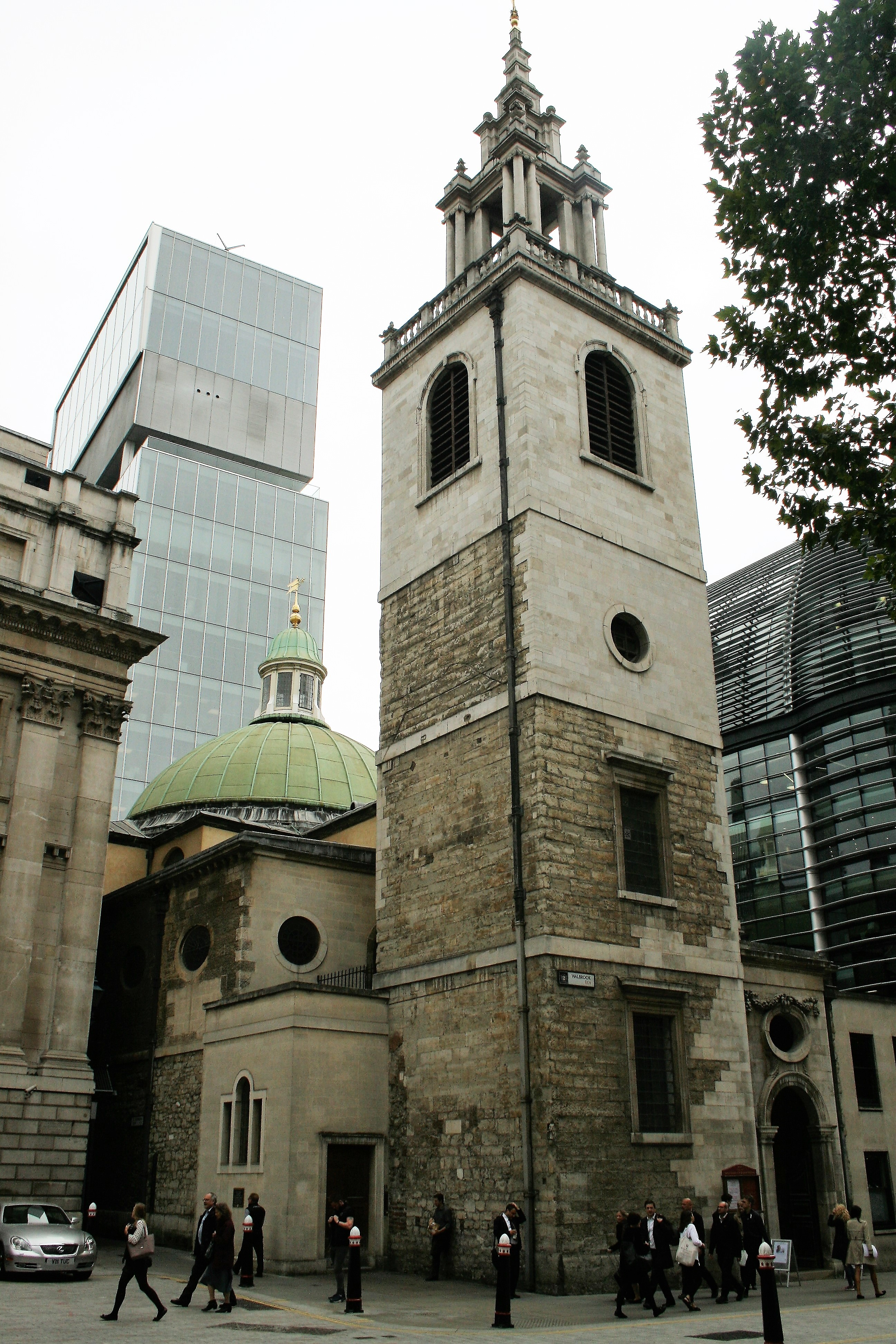 St Stephen Walbrook Wikidata has entry Q952386 with data related to this item.